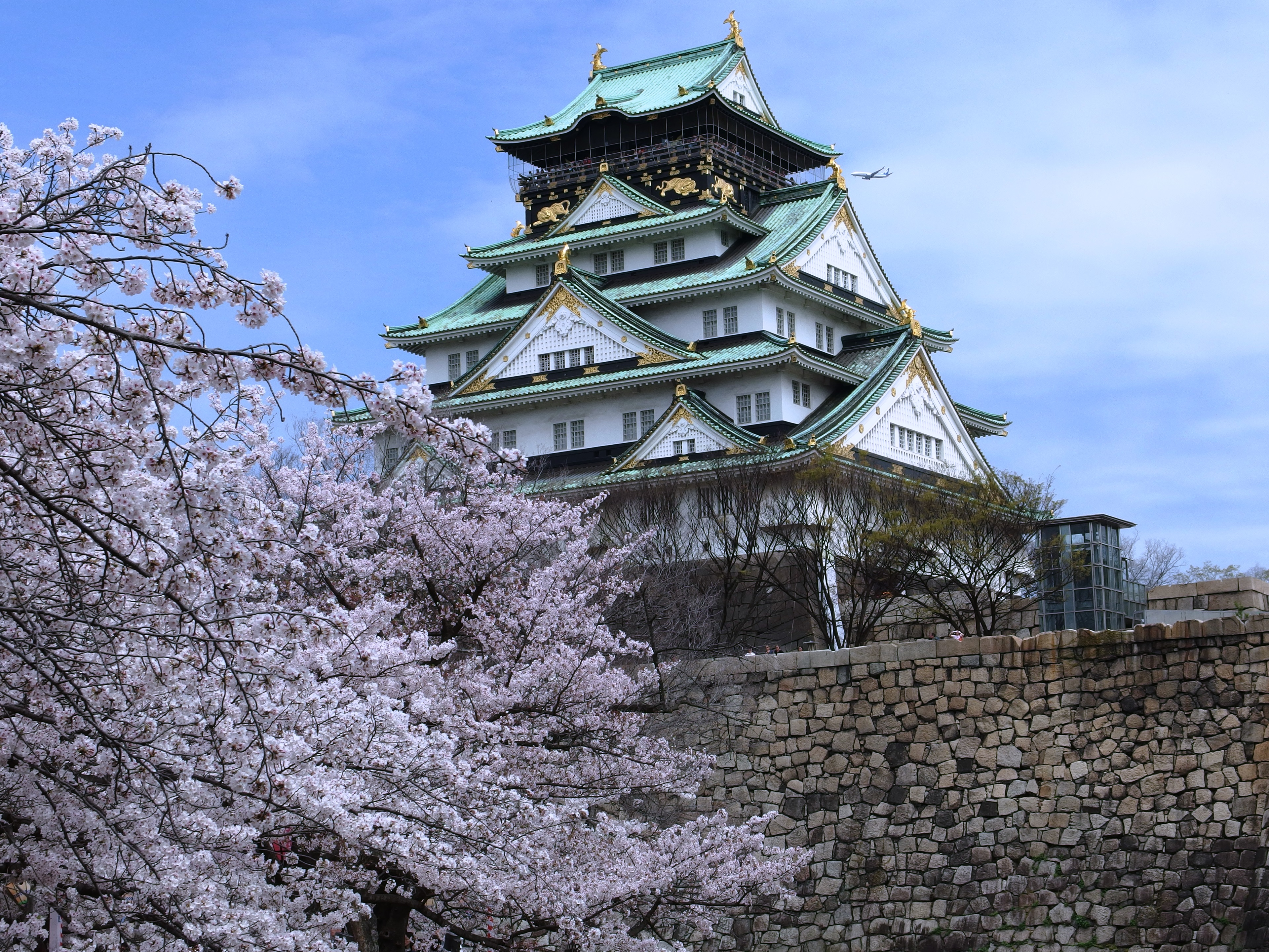 Osaka Castle in Osaka, Osaka Prefecture, Japan